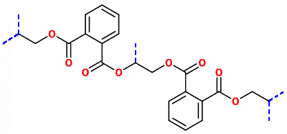 A cross-linked polyester made from the polycondensation of phthalic anhydride and glycerol at about 250 °C. A "glyptal resin" was first synthesized.